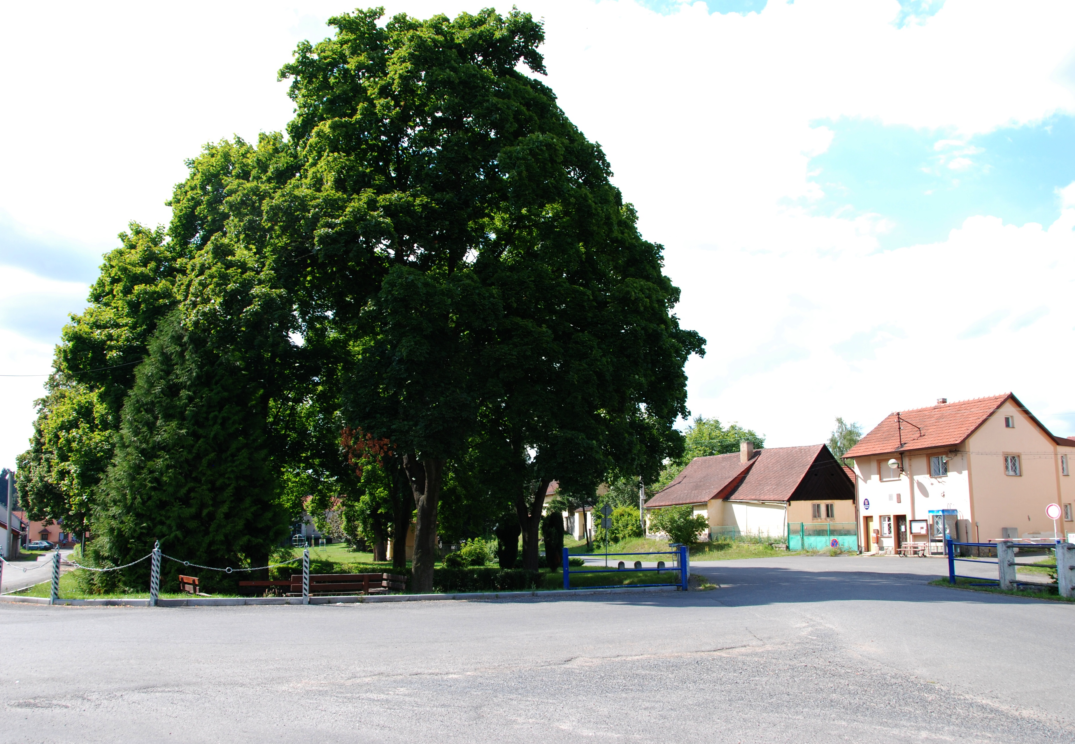 This photograph was taken within the scope of the second year of the 'Czech Municipalities Photographs' grant. Celkový pohled na náves